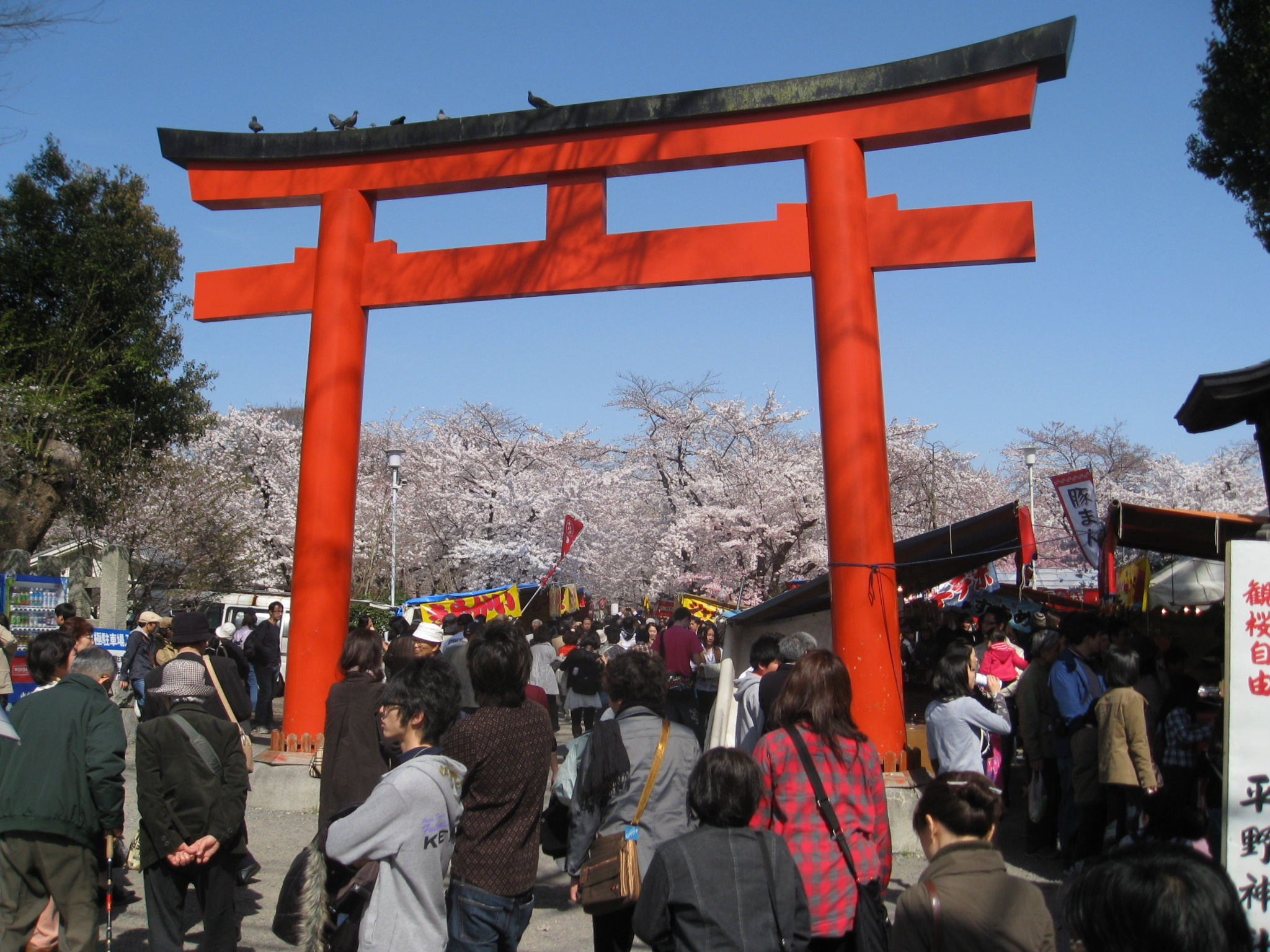 Hirano Shrine's Nishiōji Street entrance during peak Hanami season. Pictures was taken with a Canon Power Shot SD850 IS digital Elph camera.